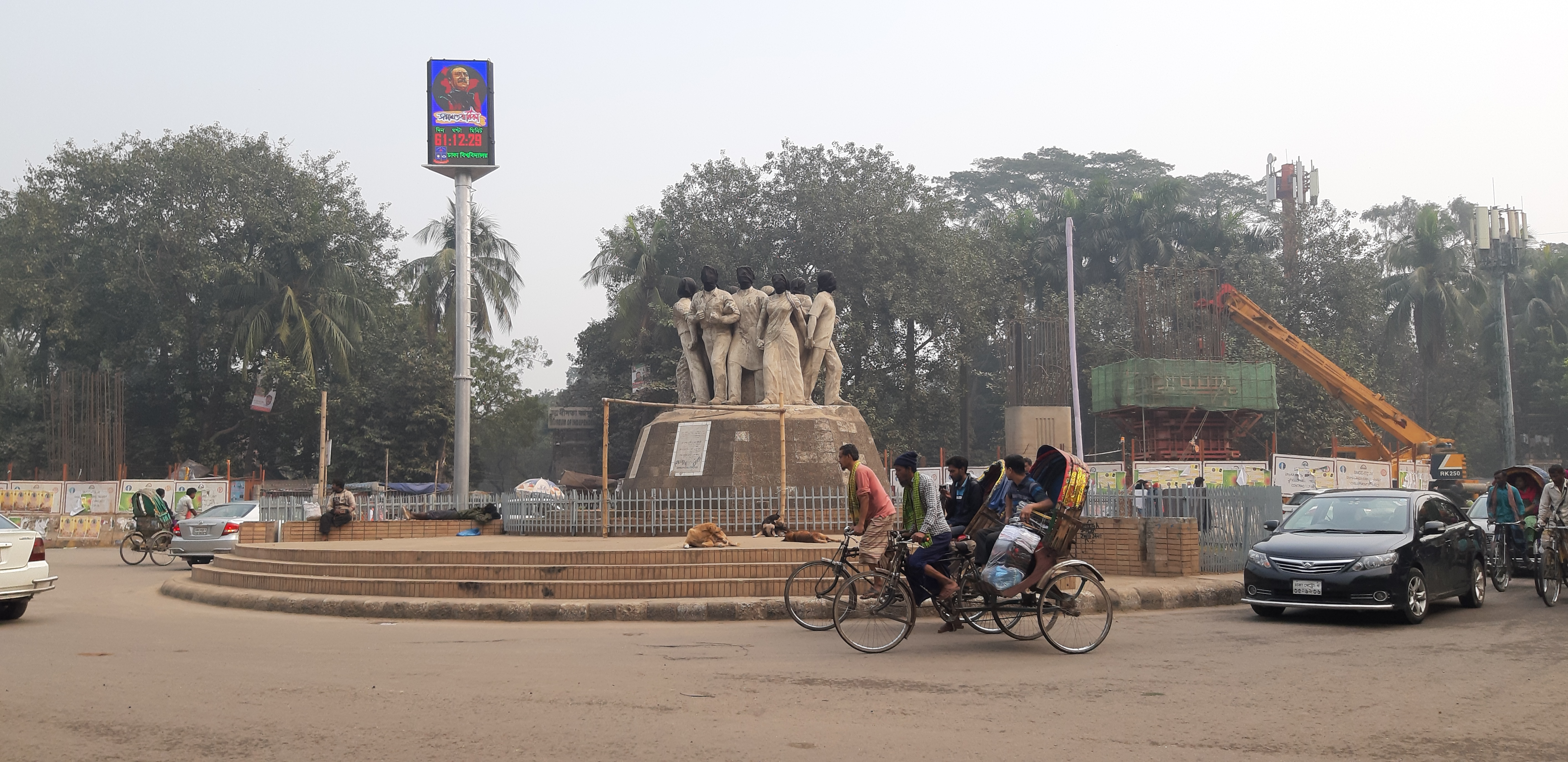 Most significant sculpture of Bangladesh . Situated at the tsc square, core of the Dhaka university campus.